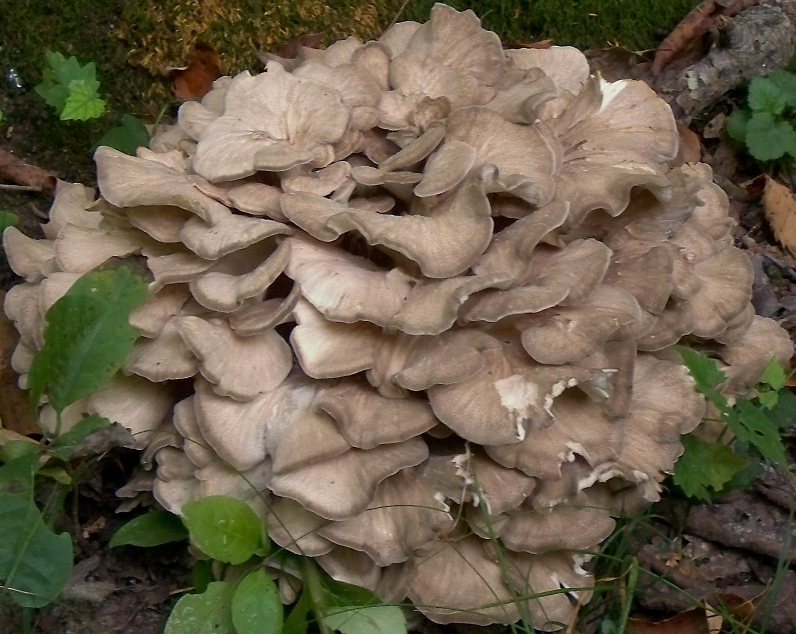 fungi